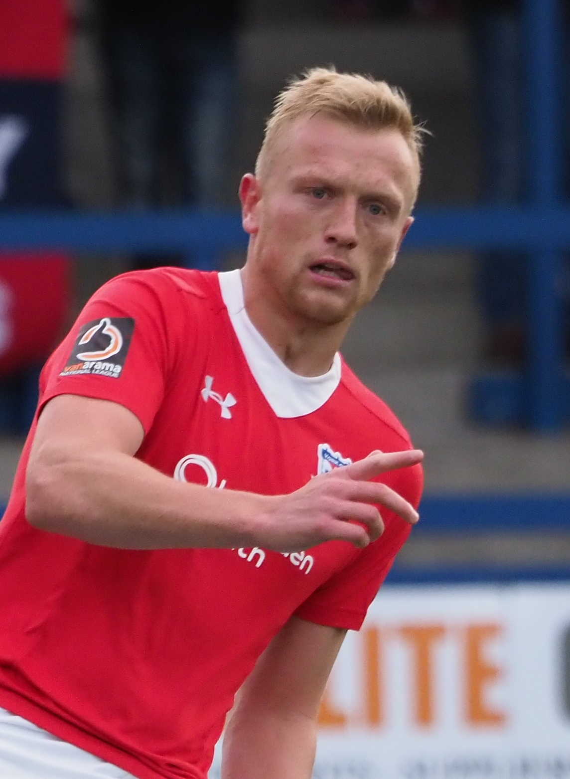 Jordan Burrow playing for York City against AFC Telford United at the New Bucks Head, Telford on 27 October 2018